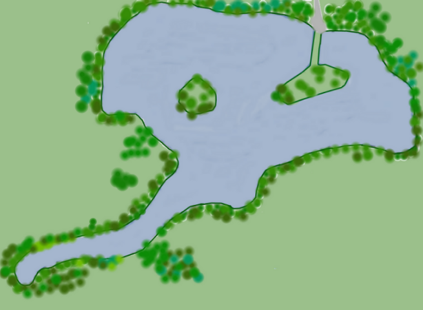 Rough drawing of Lake Monkey Business, (Leon Co., Florida)